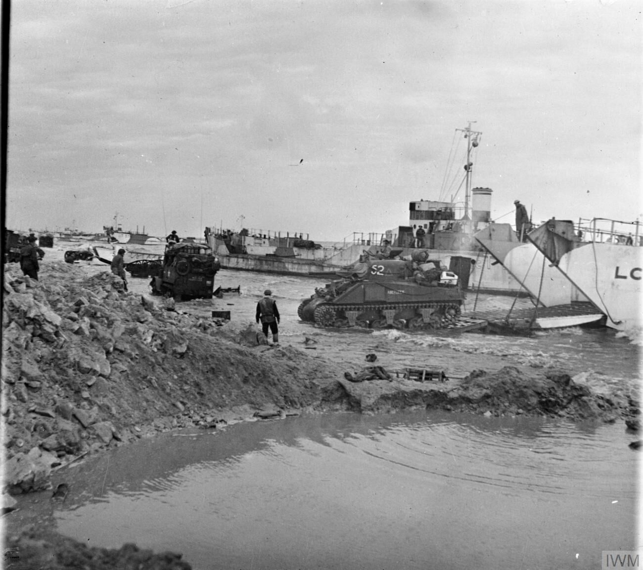 The Invasion of Normandy 1944 A Sherman tank comes ashore from a landing craft on Gold Beach, 7 June 1944.